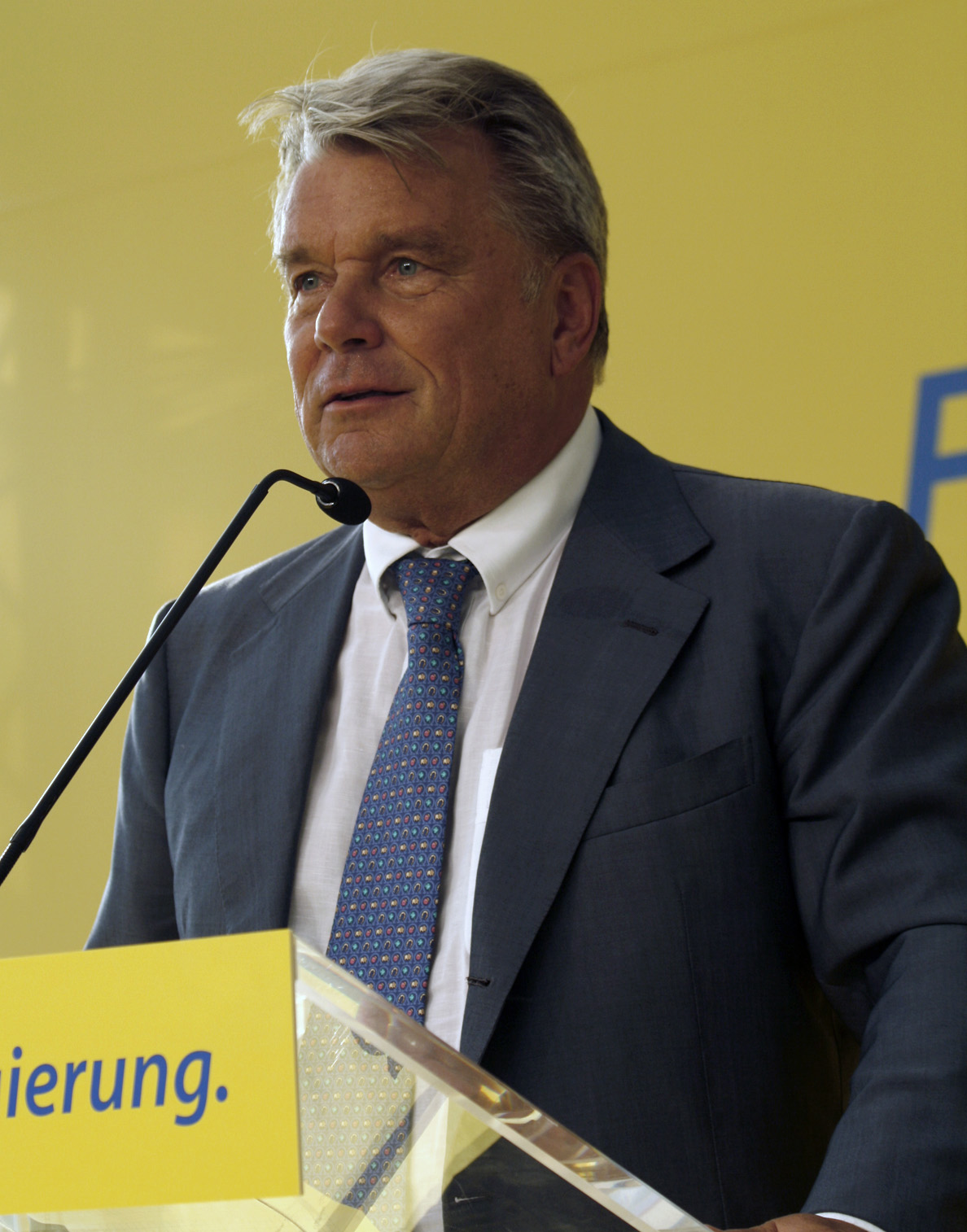 Austrian entrepreneur and politician Hans-Peter Haselsteiner at the presentation of the candidates of the Liberal Forum for the Austrian legislative election, 2008 (Vienna)